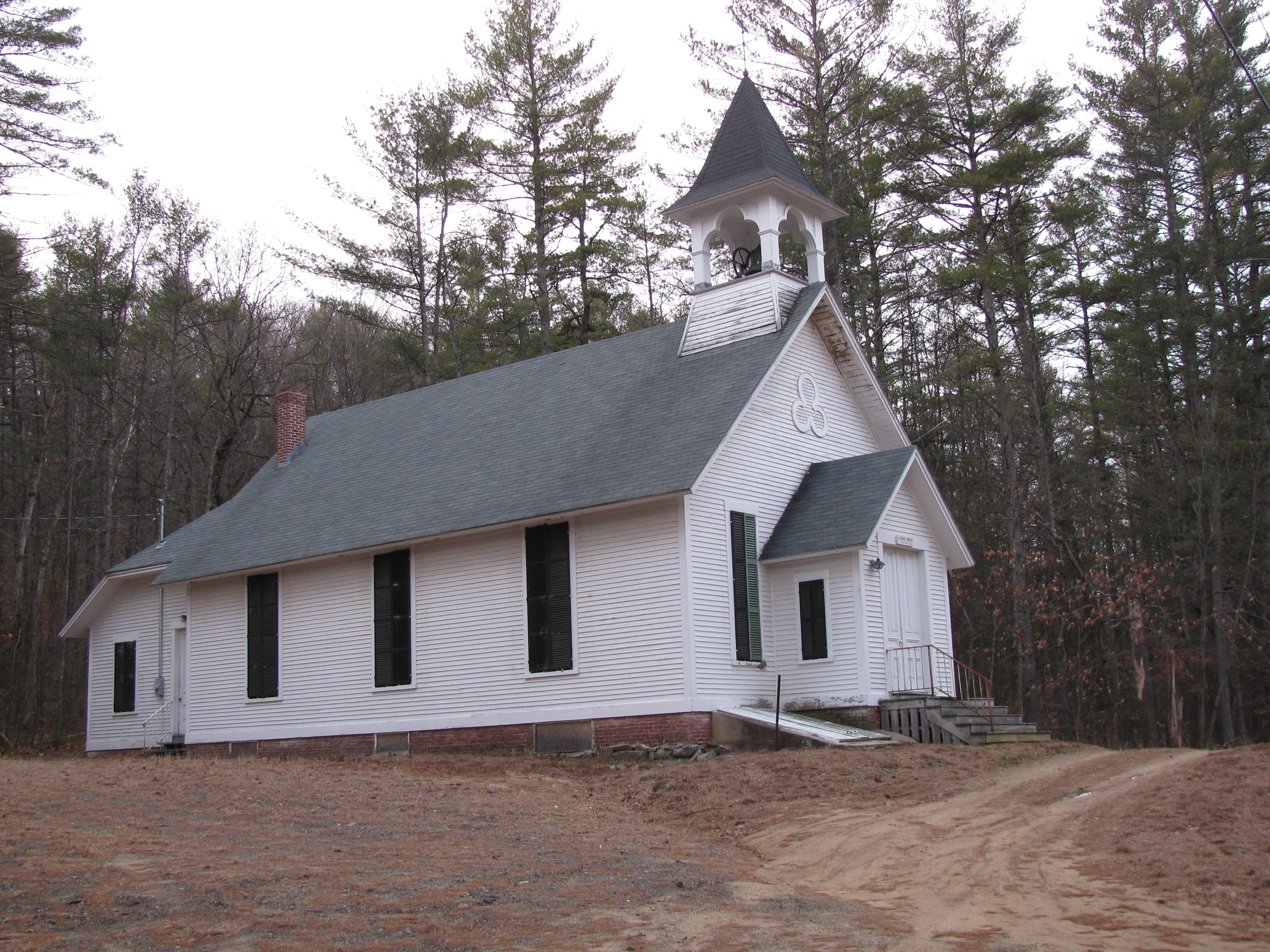 Northfield Union Church, National Registry of Historic Places #84003219, in Northfield, New Hampshire.